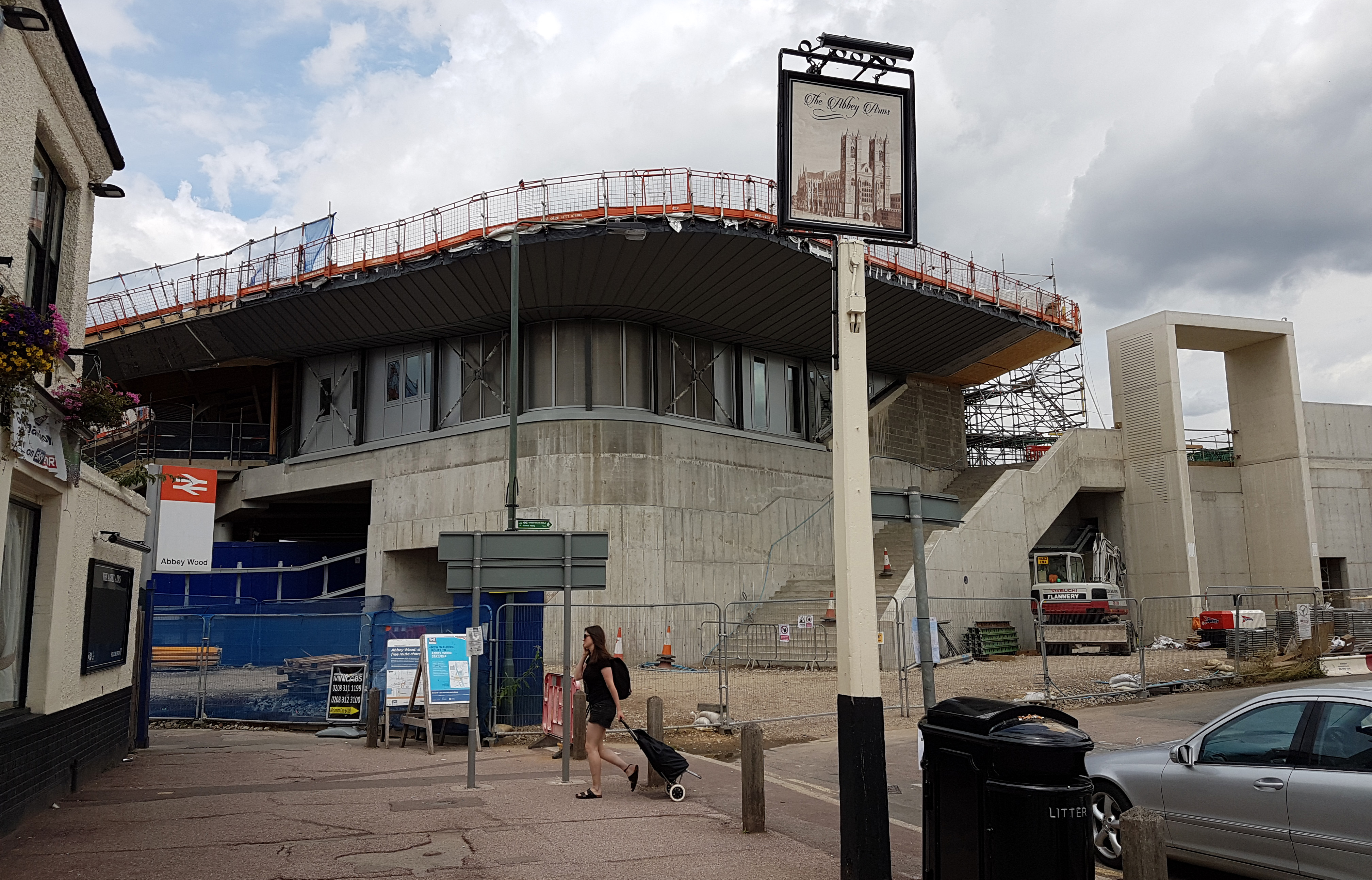 View of Abbey Wood railway station in south-east London, UK. The reconstruction is taking place in anticipation of the opening of the Elizabeth Line in December 2018.